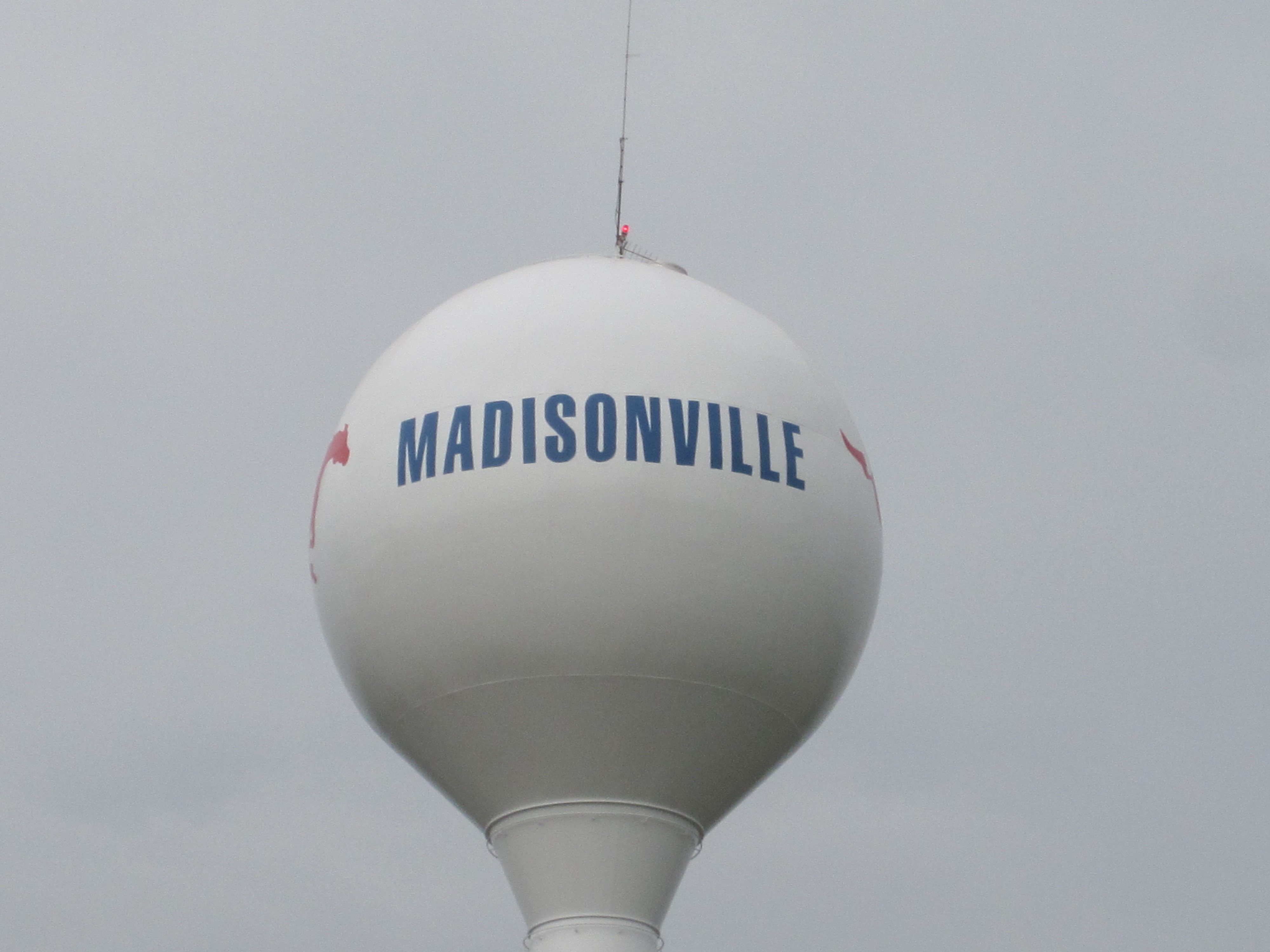 Madisonville, Texas: Bulb-style water tower at the east end of E. Collard St., just before the Madison County Jail and E. Main St. (U.S. Route 190/Texas SH 21). The water tower has "Madisonville" in blue letters and the Madisonville Consolidated Independent School District "Mustangs" team logo in red (barely visible in photo).